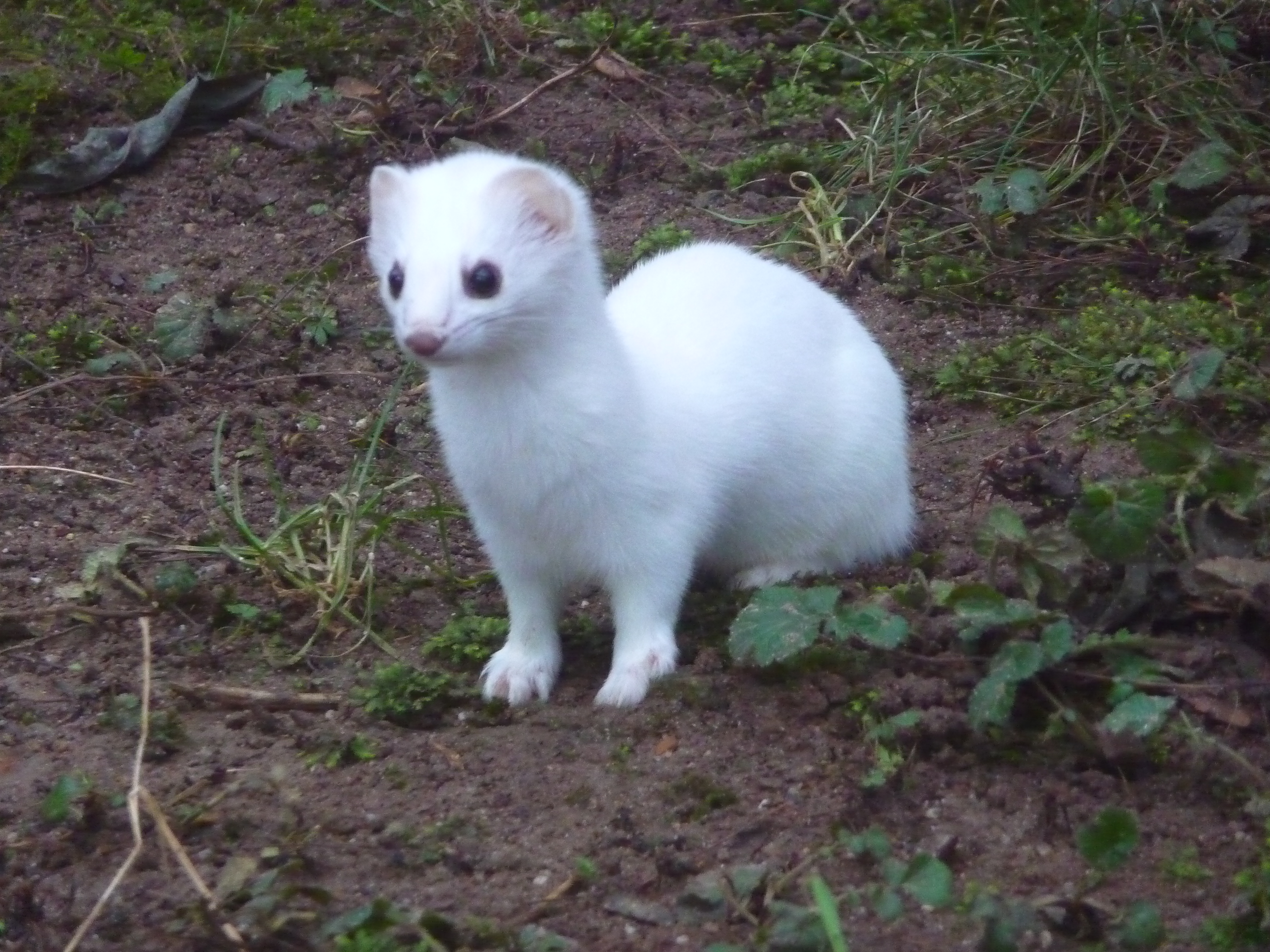 A stoat, or ermine.